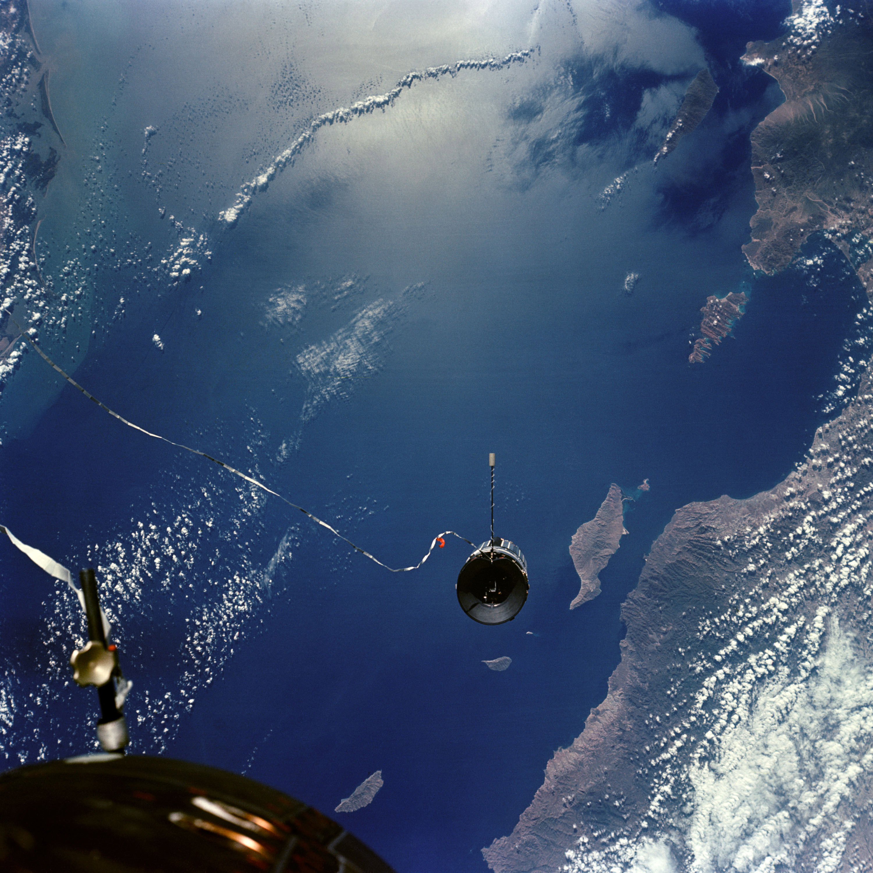 The Agena Target Docking Vehicle is tethered to the Gemini 11 spacecraft during its 31st revolution of the earth. Area below is the Gulf of California and Baja California at La Paz